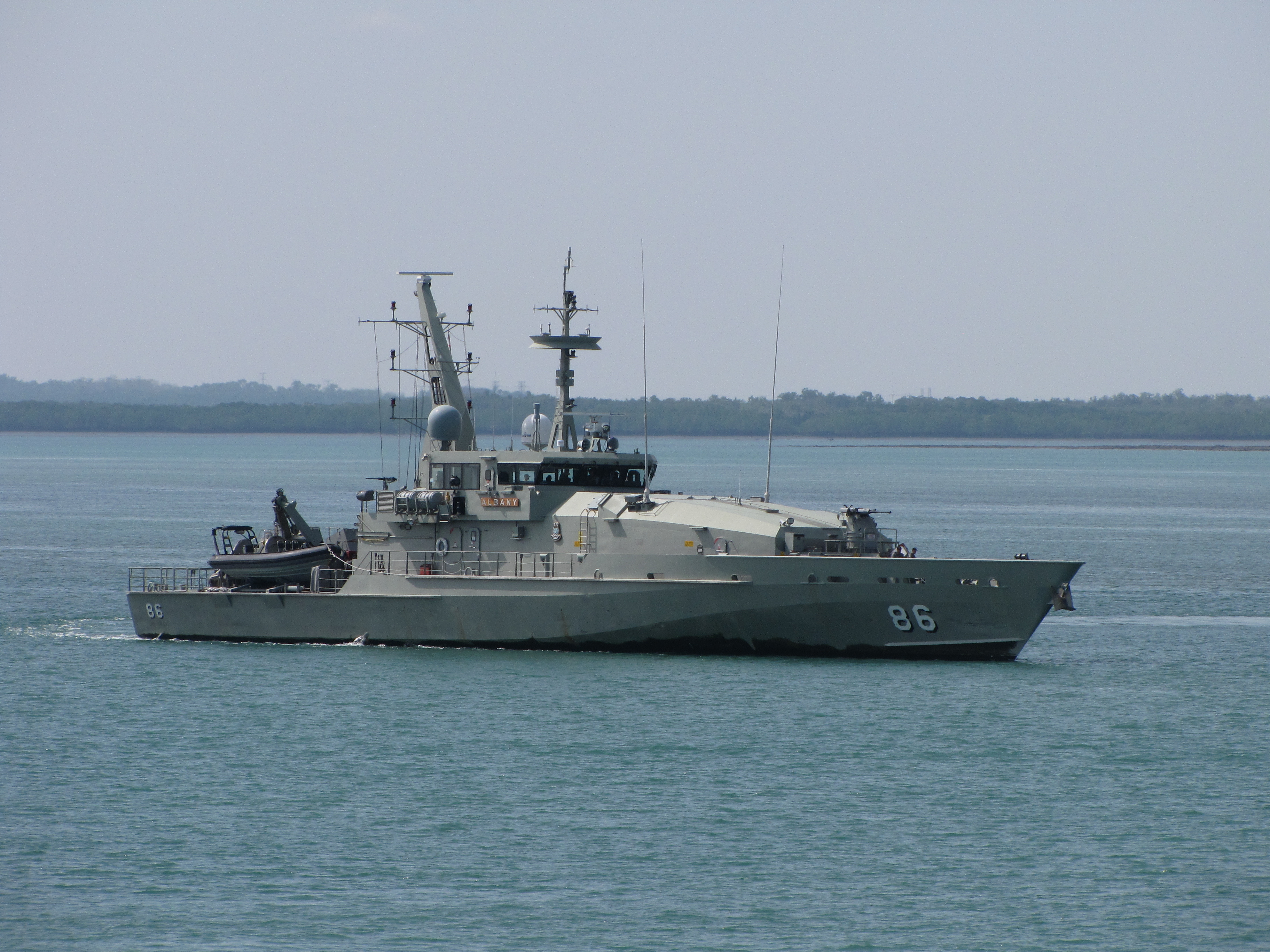 The Armidale class patrol boat HMAS Albany standing to off Darwin's Stokes Hill Wharf during the departure of the Chinese Navy ships Zhenghe and Mianyang.